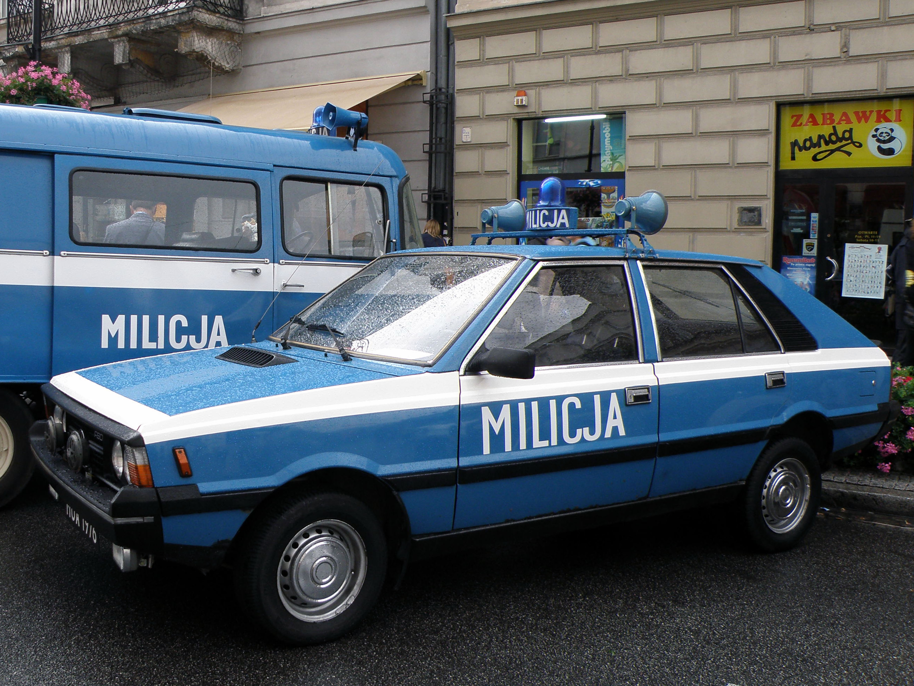 Restored FSO Polonez MR'83 and Nysa 522 RSD of Citizens' Militia of Polish People's Republic (of re-enacting group )